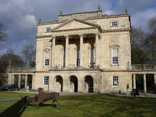 Holborne Museum of Art